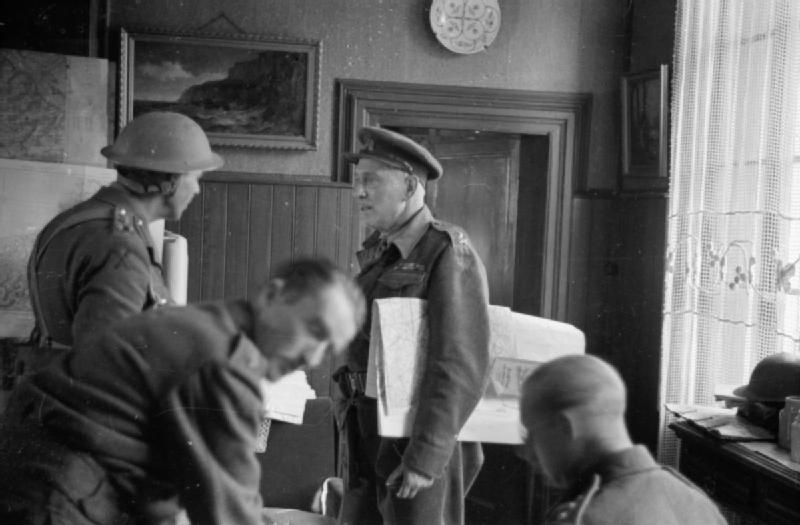 The British Army in France 1940 Major General V Fortune, commanding 51st Highland Division, at his Headquarters at Le Caudroy on 8th June.